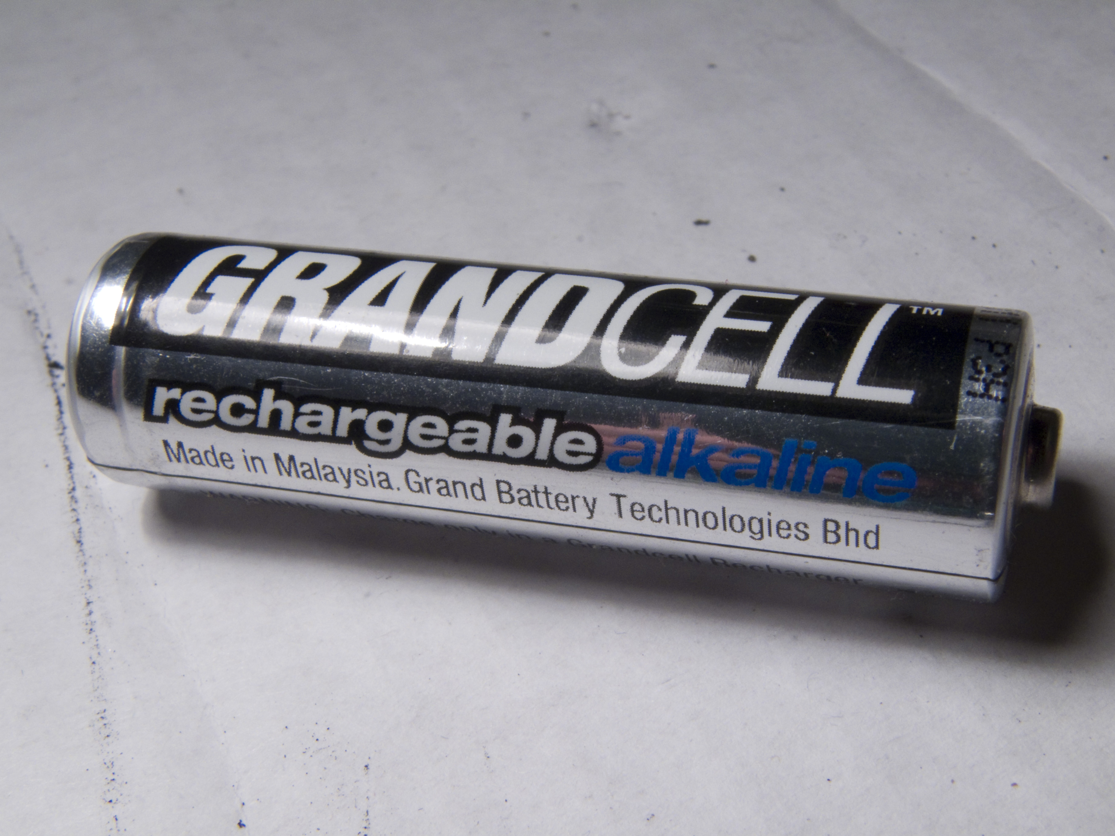 Rechergrable alkaline Manganese (RAM) battery.